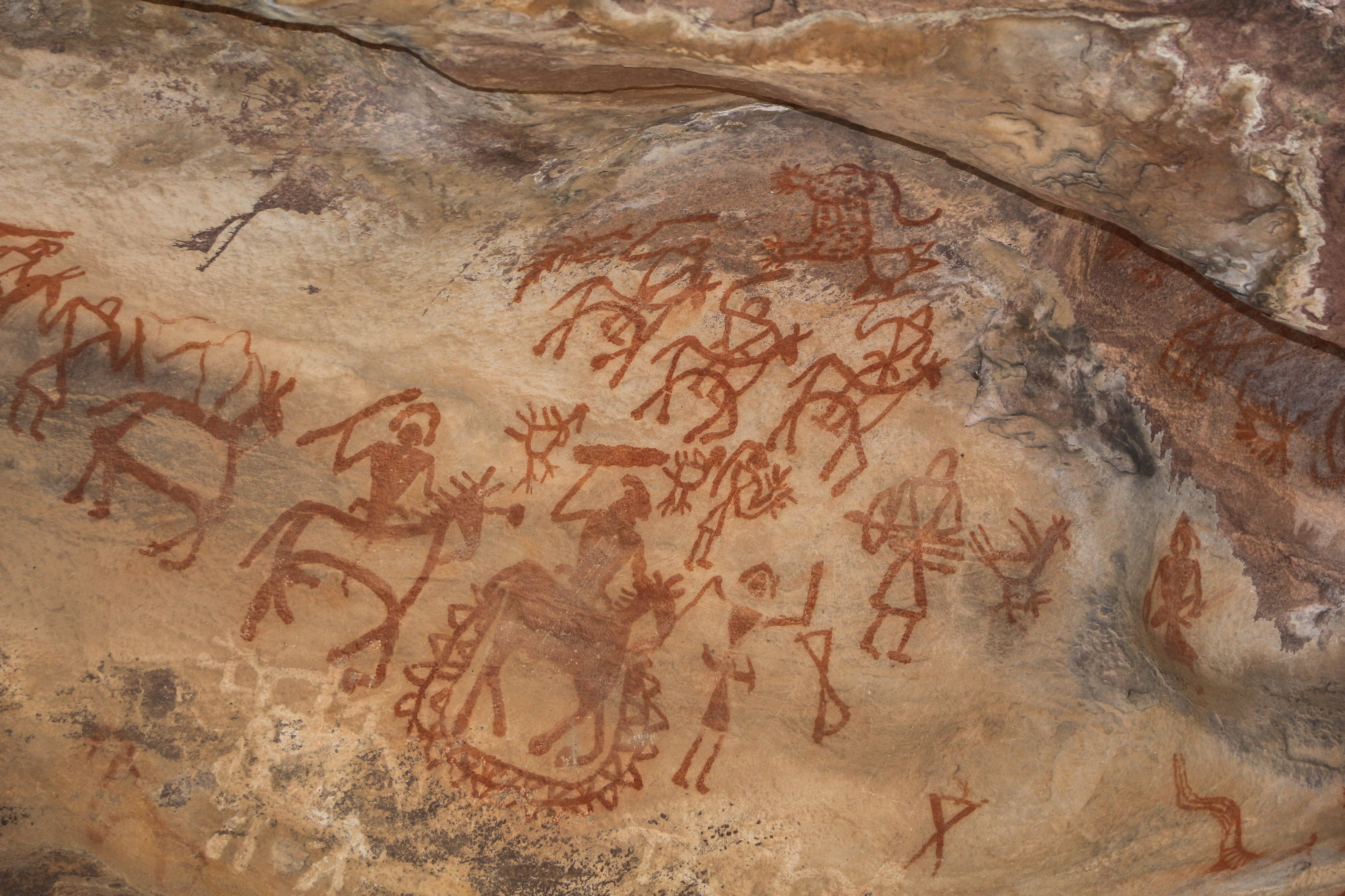 Paintings in Rock Shelter 8, Bhimbetka, India